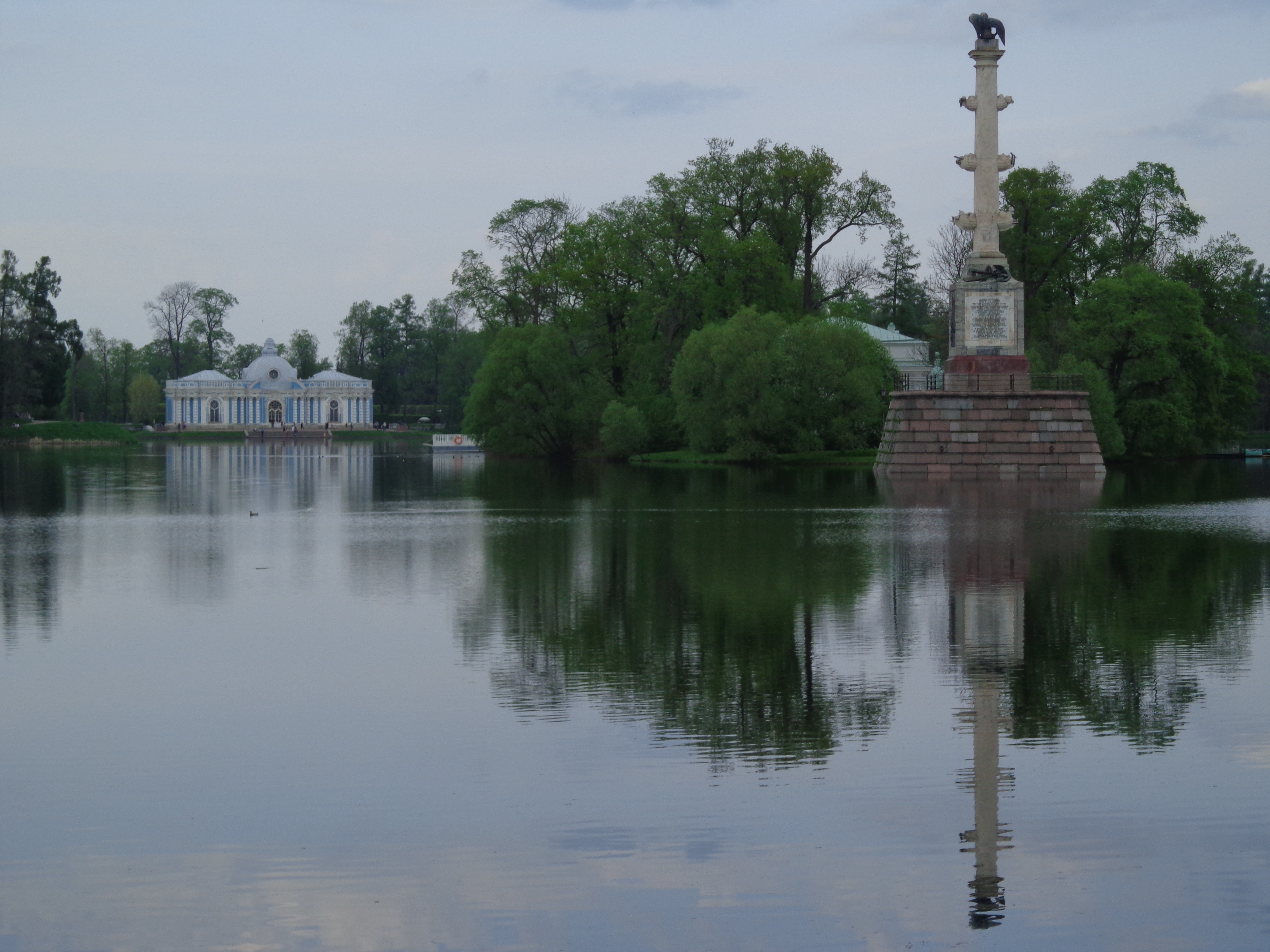 Chesme Column over the Great Pond, with in the back the Admiralty (right) and the Concert Hall (left), Catherine Park, Pushkin (Tsarskoye Selo)